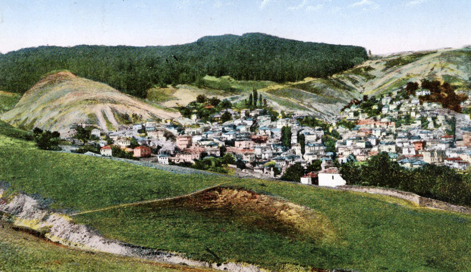 Postcard from Krusevo from 1920s This media file is produced by Wikipedian in Residence in Category:Wikipedian in Residence at DARM in 2016.